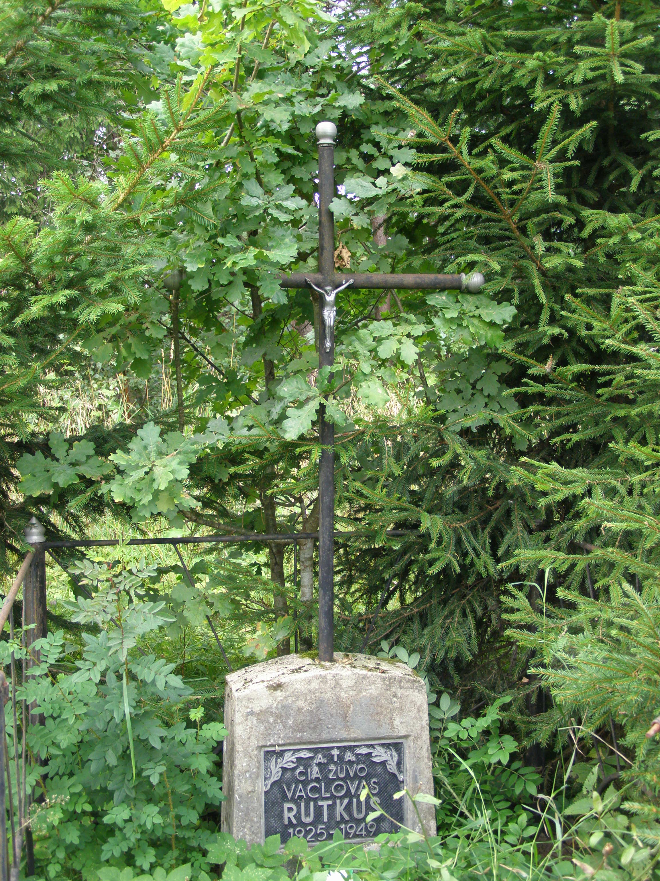 Kruopiai monument, Skuodas district, LithuaniaLietuvių: Kruopių paminklas partizanui V. Rutkui, Skuodo rajonas, Lietuva